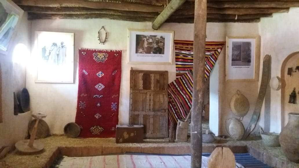 We have in this picture, the materials we used before, in our culture, Morocco